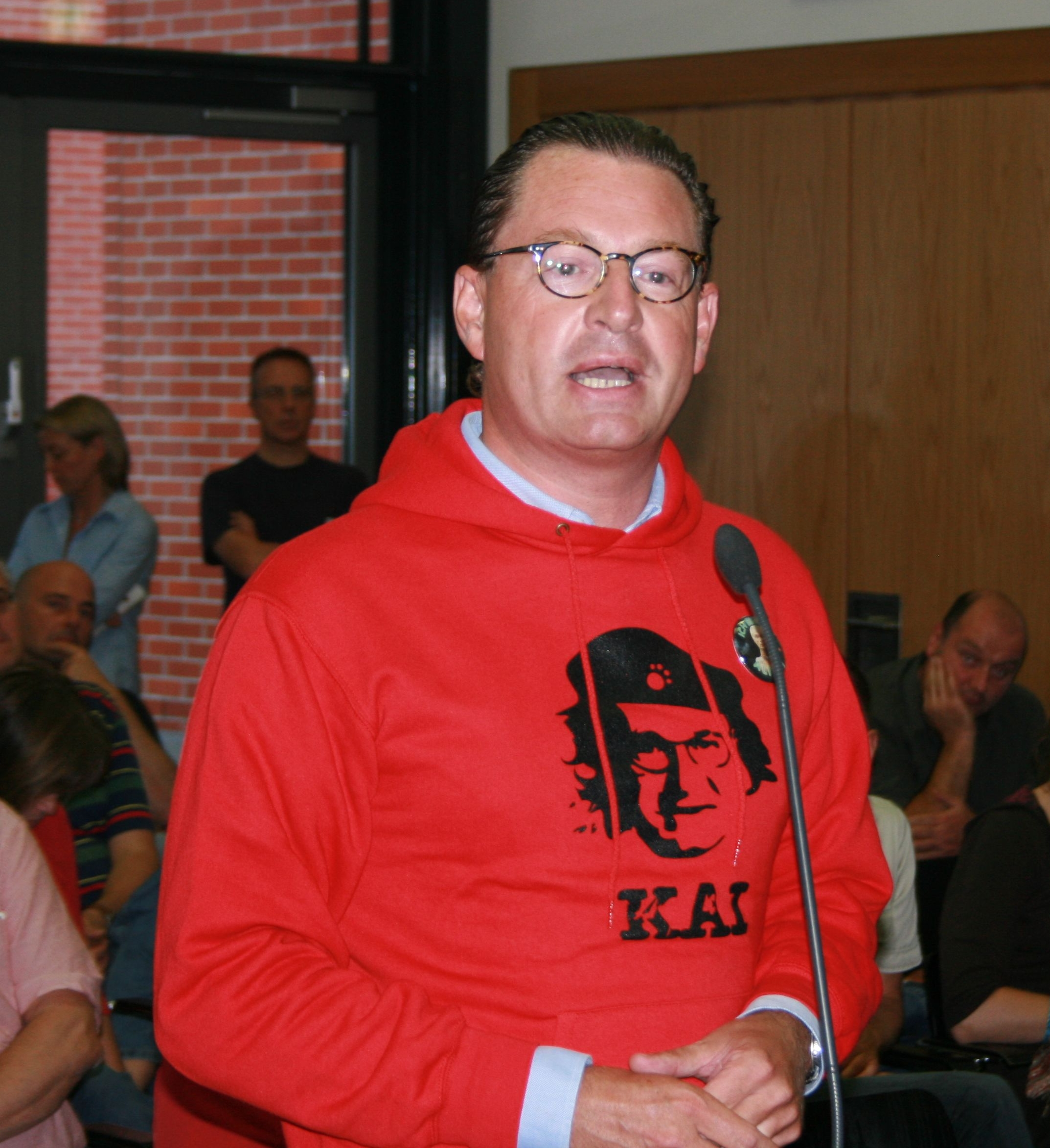 comrad Kai Diekmann, german journalist (chief editor of “Bild” daily newspaper and member of “taz” cooperative) at general meeting ot the taz cooperative (helding capital of “taz”/german alternative newspaper). Discussion about yearly report from cooperative board and supervisory board; Berlin, house of “ver.di”-workers union.